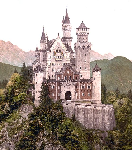 Cropped version of a photochrom print of the front of Neuschwanstein Castle, Bavaria, Germany, taken as few as ten years after the completion of the castle.